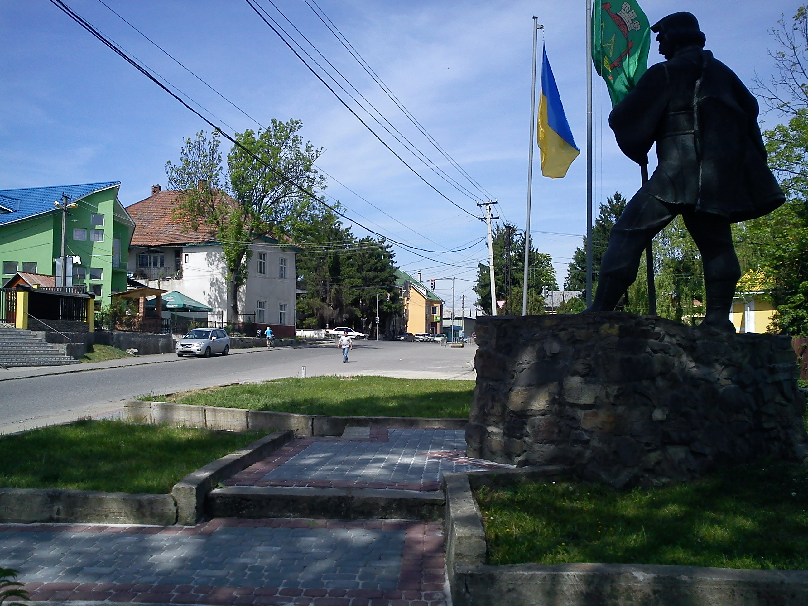 The centre of the Bushtino, Transkarpatian region